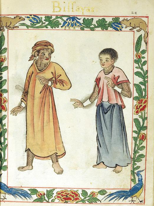 A Visayan Freemen couple